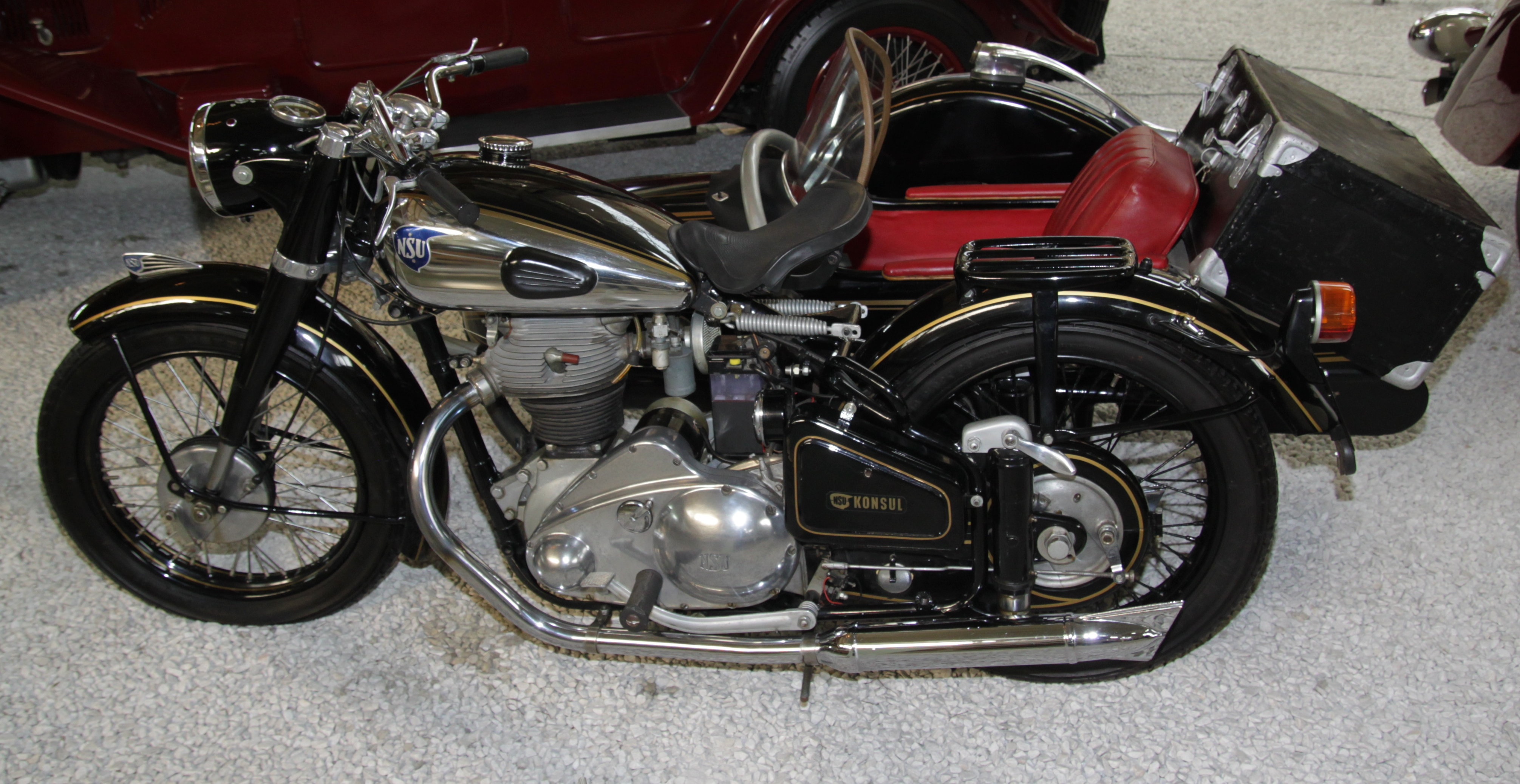 NSU Konsul Motorcycle 351 OS-T